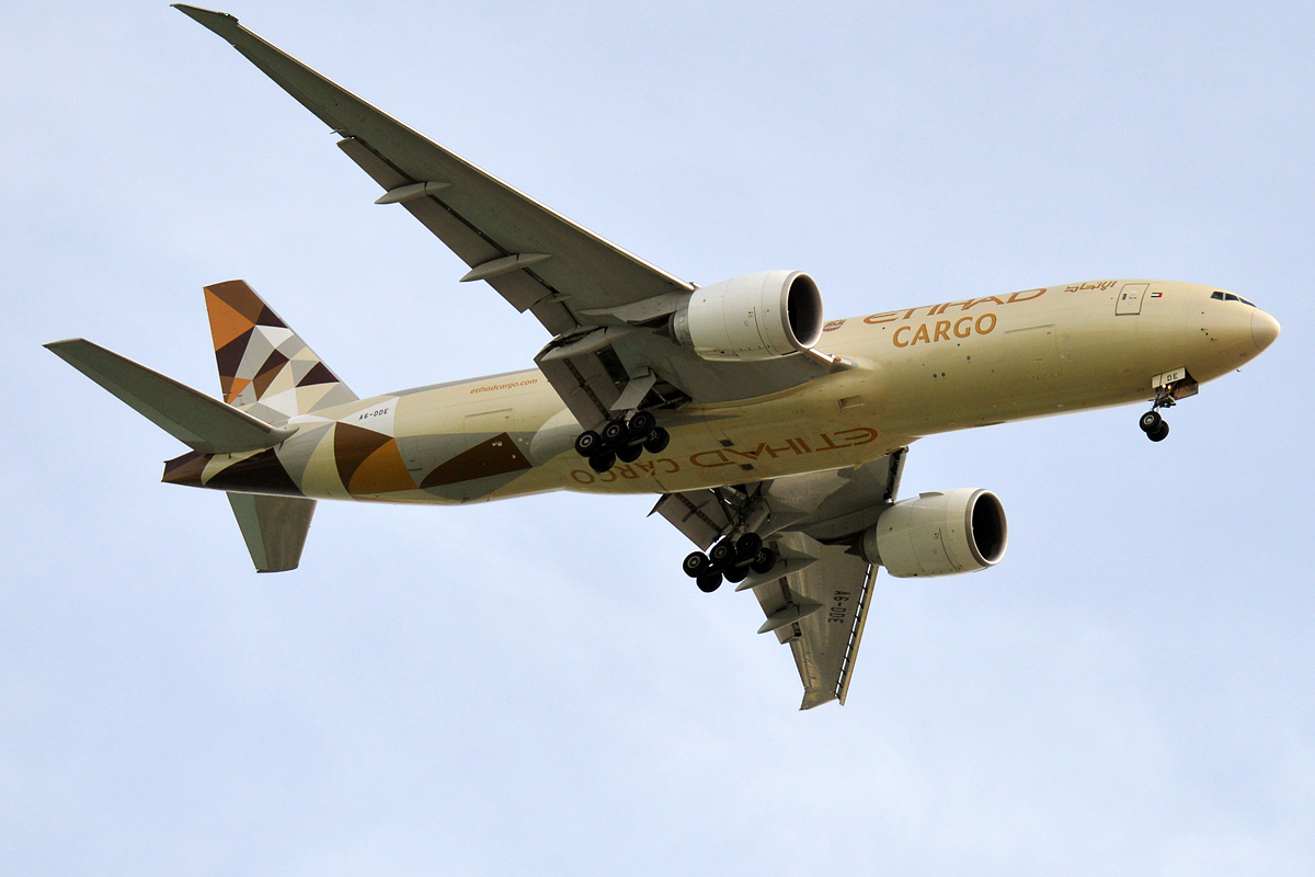 Etihad Cargo, A6-DDE, Boeing 777-FFX